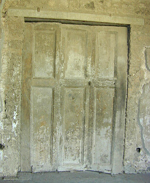 Roman folding doors from the Villa of the Mysteries in Pompeii.